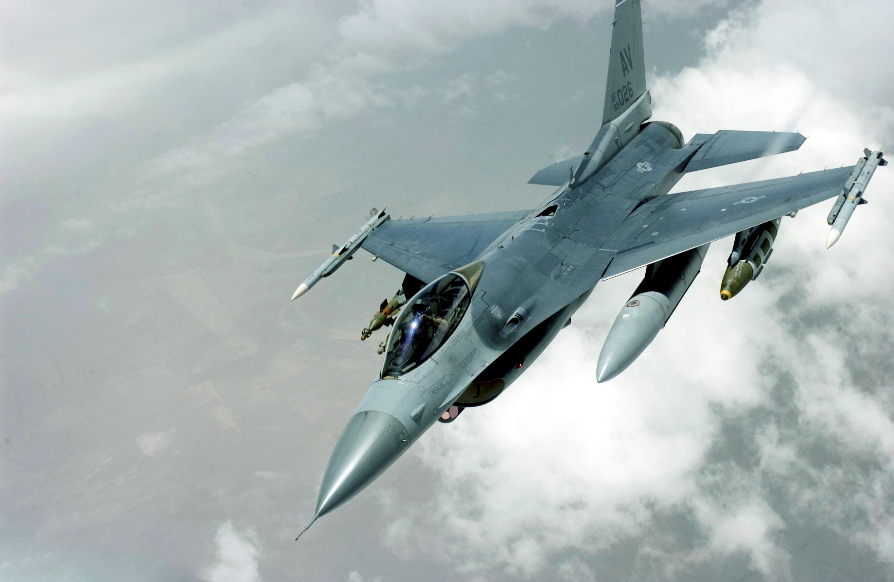 Over Iraq, a F-16C Fighting Falcon pilot from the 555th Fighter Squadron peels away from a KC-135 Stratotanker from the 92nd Air Refueling Squadron